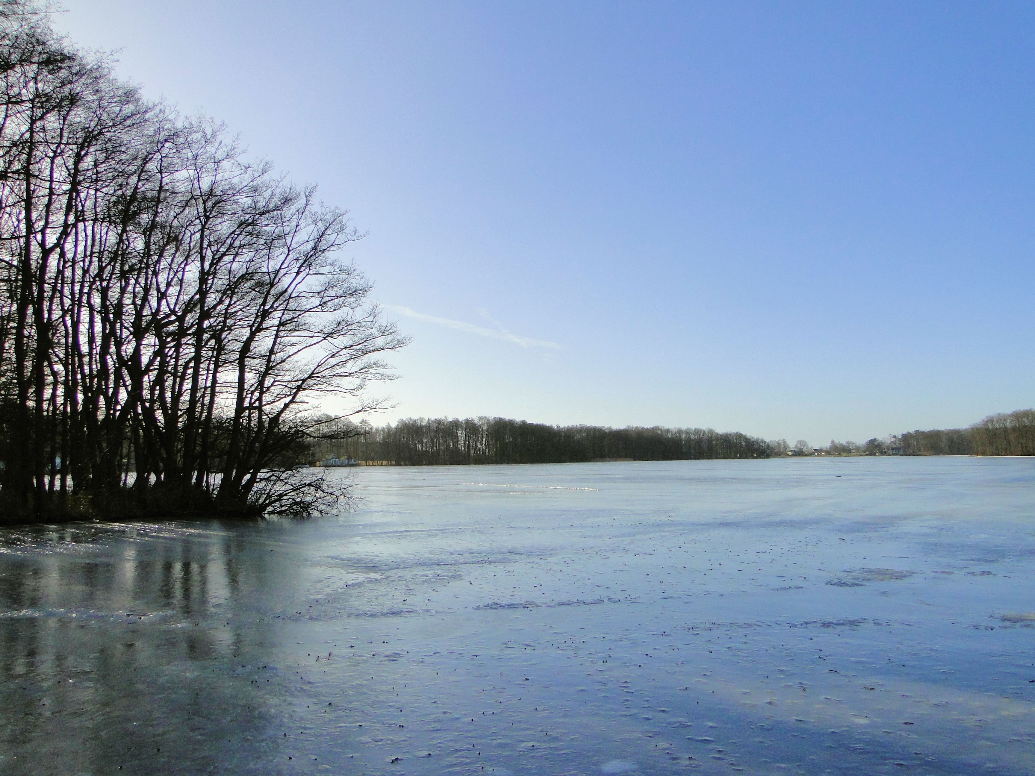 Frozen Dümmersee in/near Dümmer, district Ludwigslust-Parchim, Mecklenburg-Vorpommern, Germany